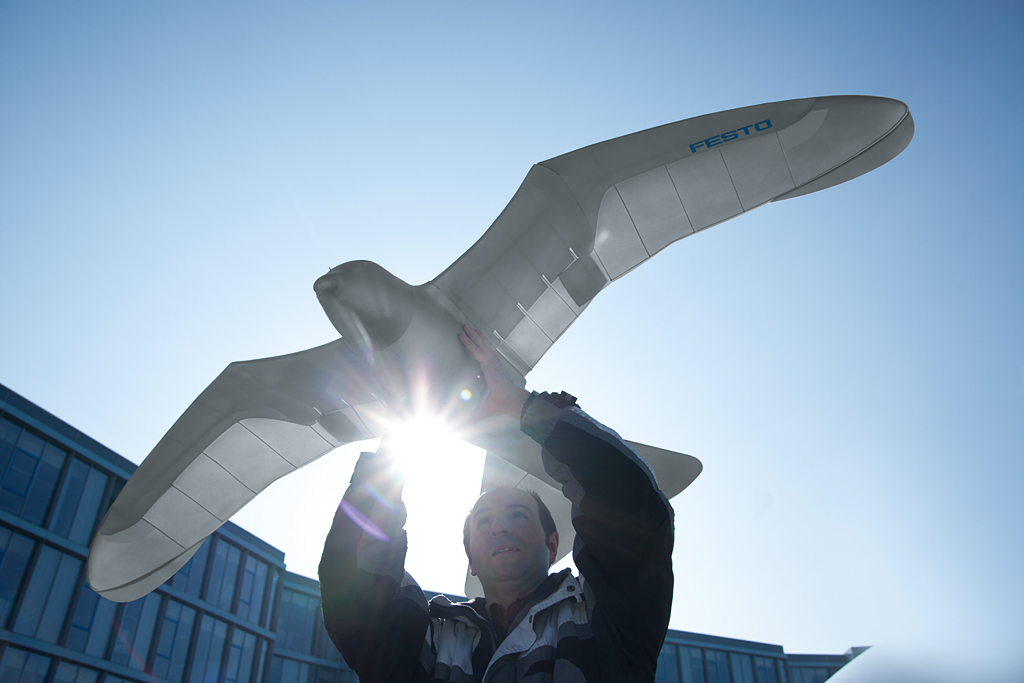 SmartBird